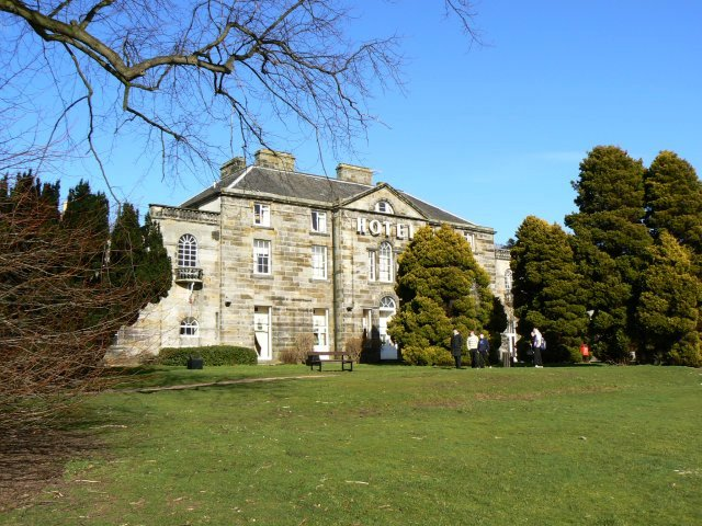 Dunnikier House An 18th century country mansion, Dunnikier House was originally occupied by General Sir John Oswald (1770 - 1840). It is now a privately-owned hotel with an impressive oak panelled entrance.